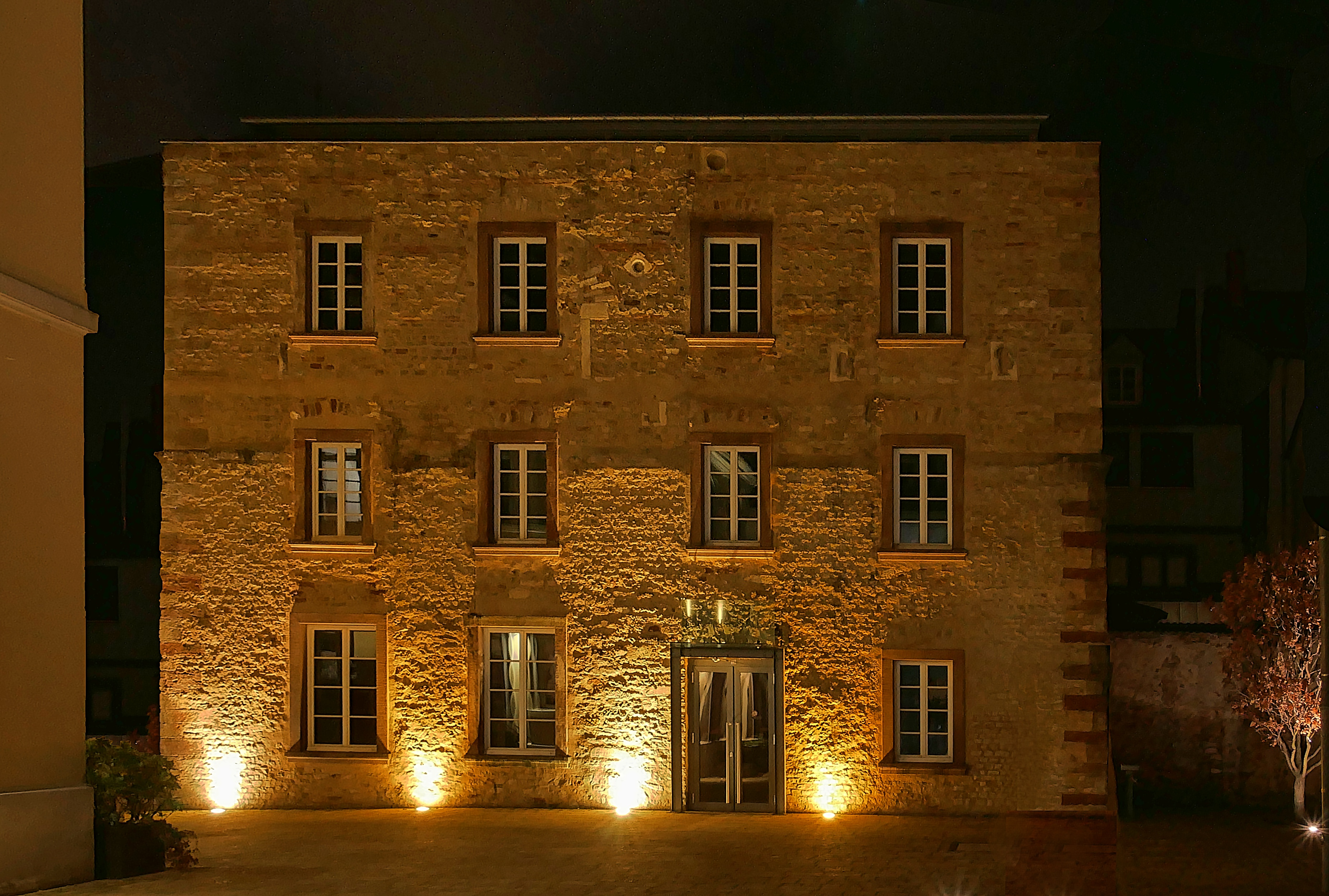 Medival tower "Turm Jerusalem", Trier, Germany